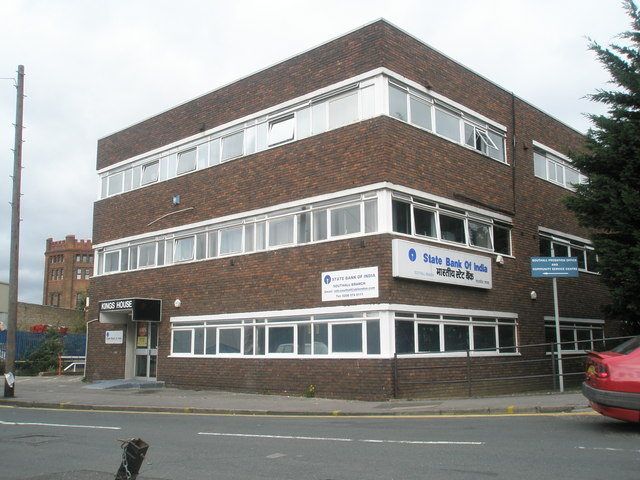 The State Bank of India At the junction of Southbridge Way with The Green.